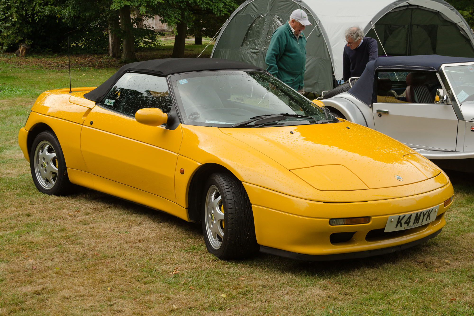 Lytham Hall Classic Car Show 03/08/2014